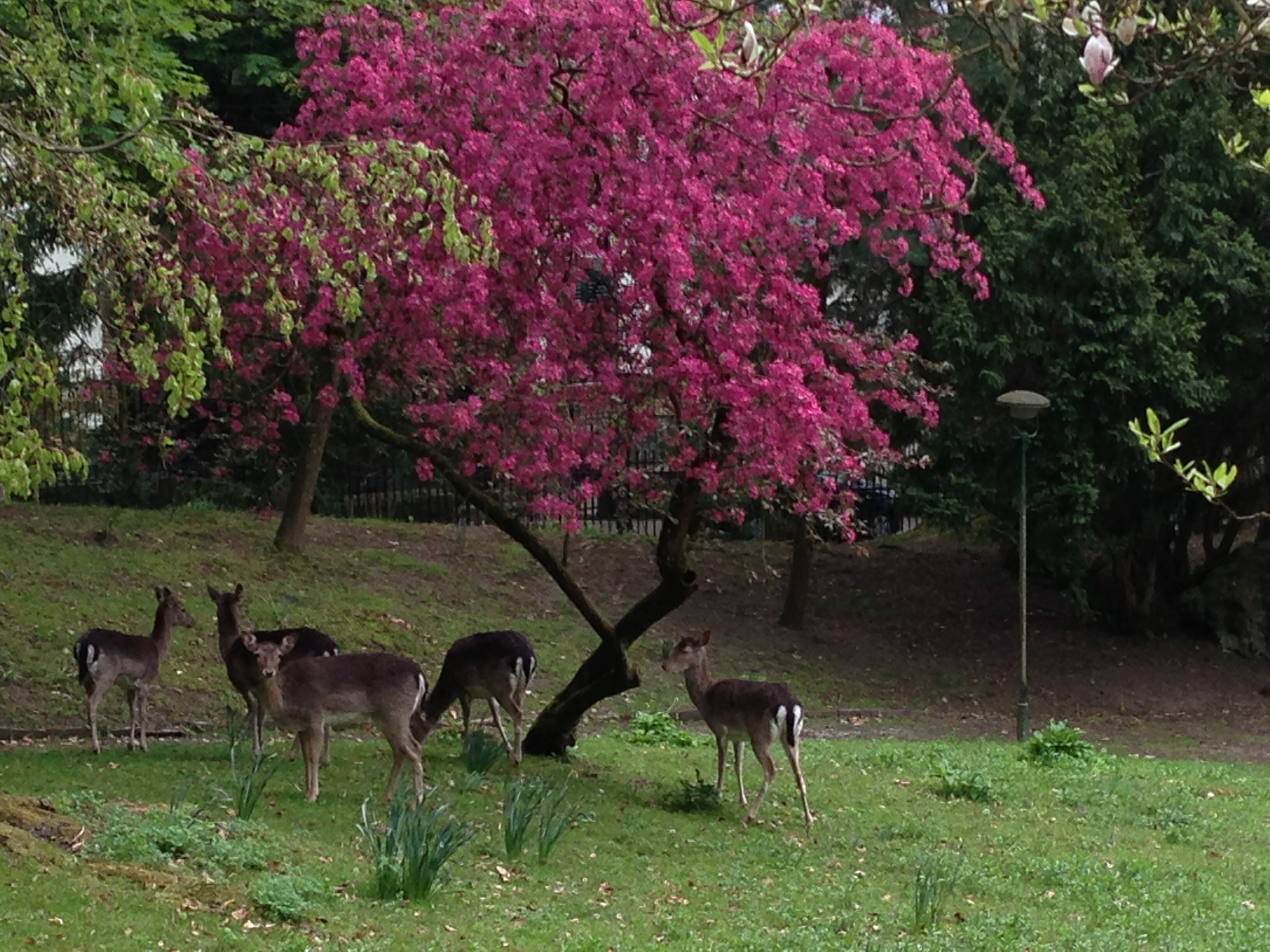 In the park of Villa Haas. Flora and fauna have always been a part of the German "landscape park" (garden).